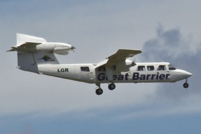 Britten-Norman BN-2A Mk.III Trislander from Great Barrier Airlines taking off at Auckland International Airport for the short trip to Great Barrier island. Call sign ZK-LGR